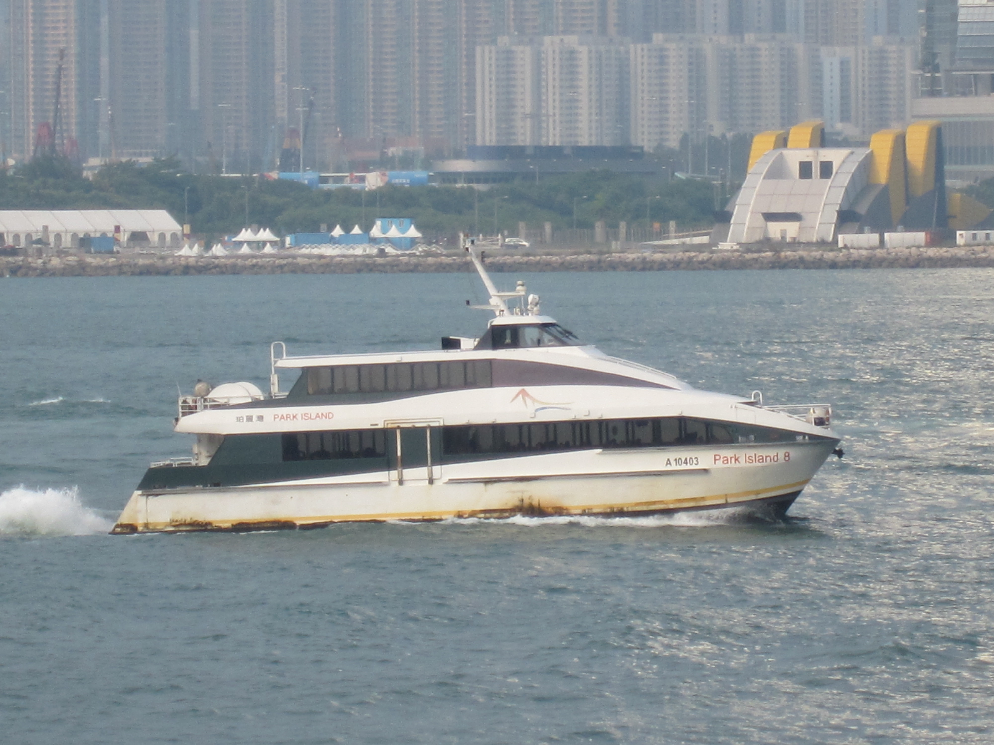 Park Island Transport - Park Island 8 中文（香港）: 珀麗灣客運 - 珀麗灣8